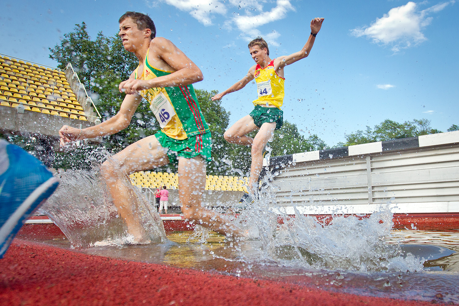 Steeplechase of 2014 Lithuanian Championships in Athletics. Simonas Steponavičius (46), Darius Petkevičus (44).